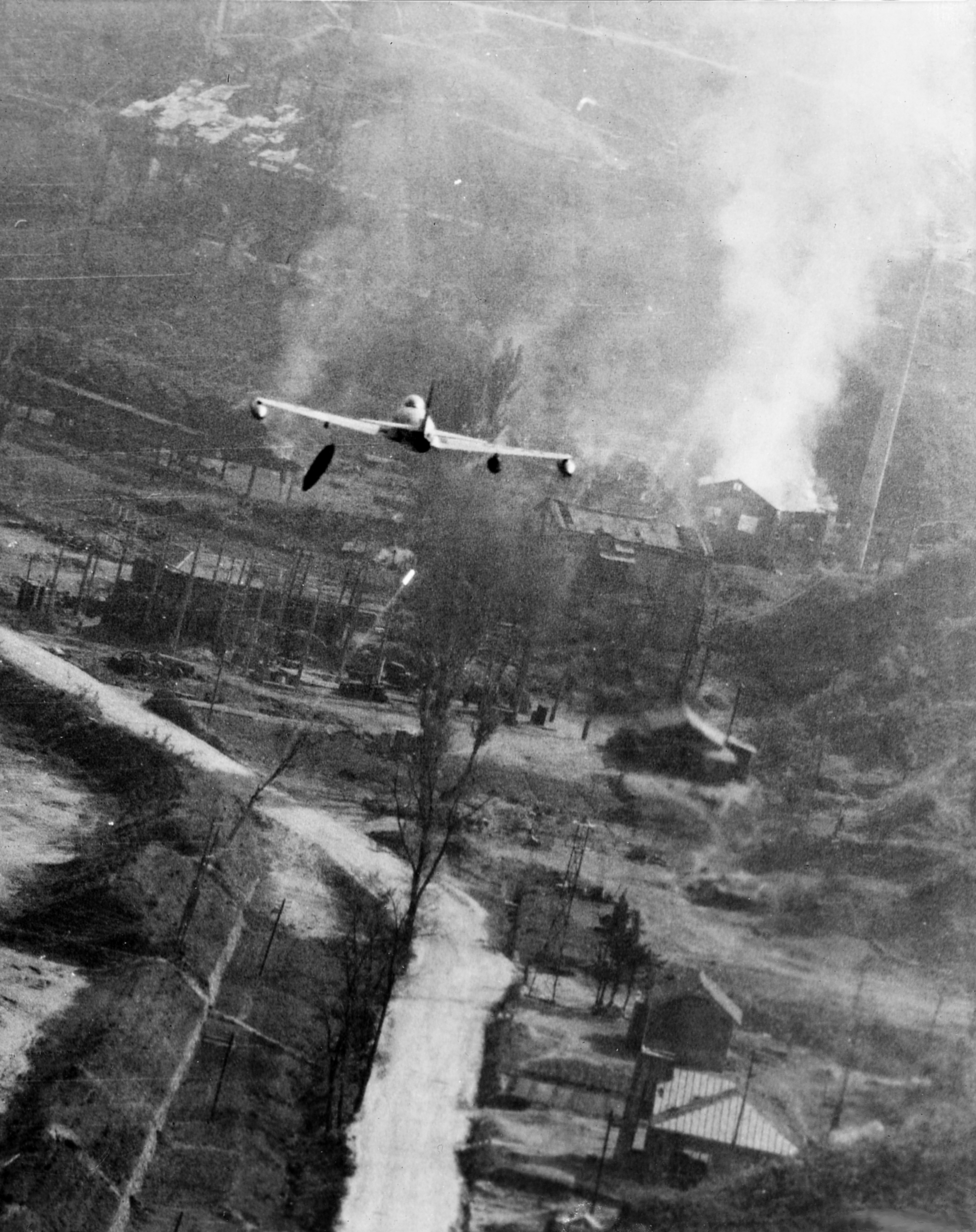 A U.S. Air Force Lockheed F-80C Shooting Star drops napalm bombs in Korea, May 1952. Note what appears to be a tracer below the plane.